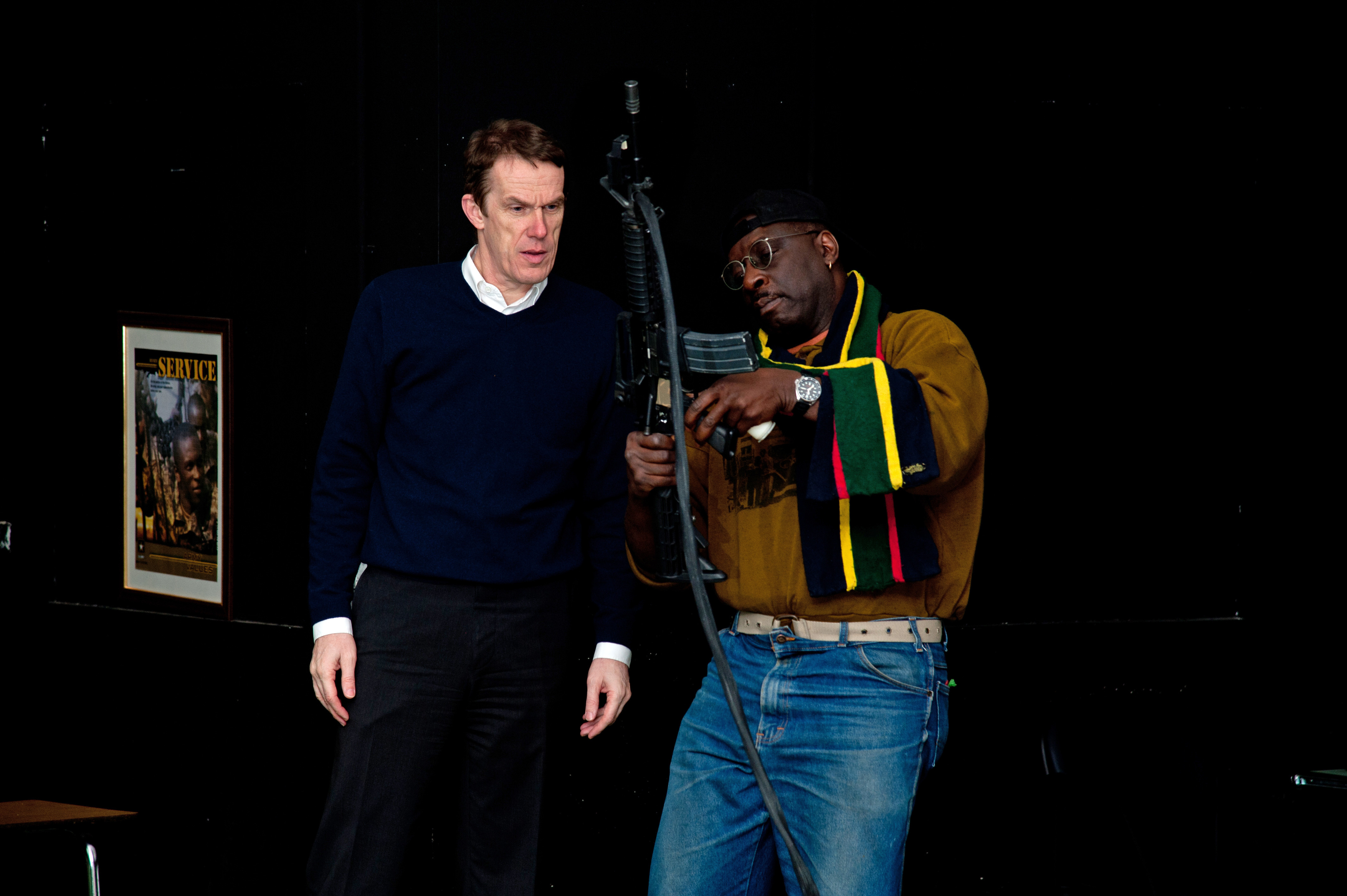 Lloyd Johnson, right, the engagement skills trainer operator for the 7th Army Joint Multinational Training Command in Stuttgart, Germany, shows the Boeblingen Mayor Buergermeister Wolfgang Luetzner how to operate a simulated M4 rifle at the Panzer Range Complex near Boeblingen, Germany, March 1, 2011.